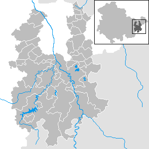 Municipalities in District Greiz, Thuringia